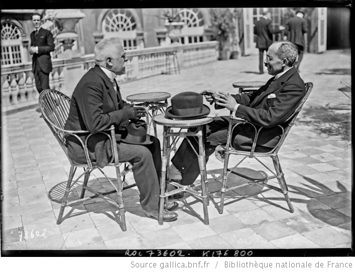 Johann Schober, representante austriaco, y Van Karnebeek, holandés, en la Conferencia de Génova de 1922.